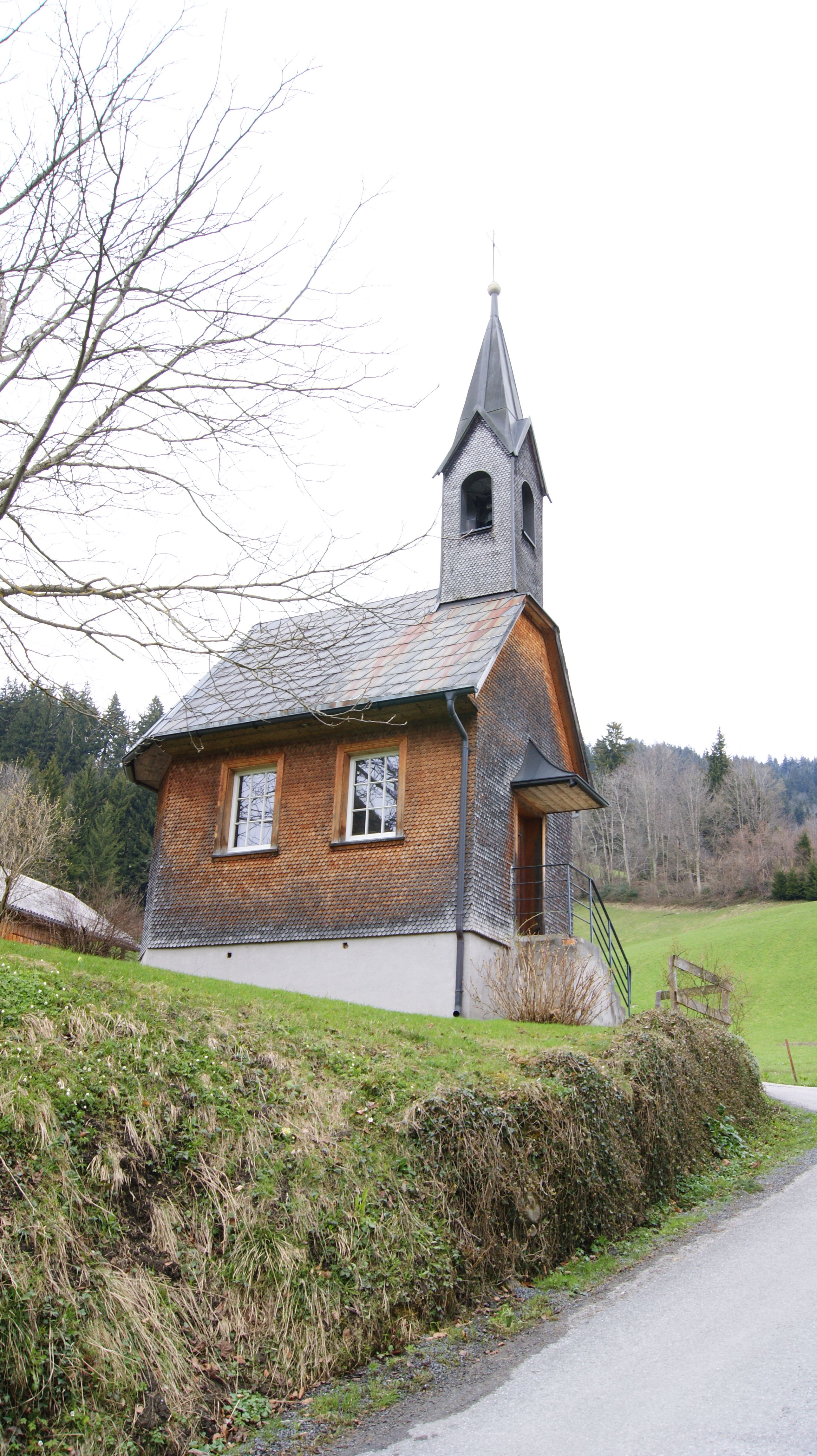 Chapel St. Mary in Schwendebach, Watzenegg, Dornbirn, Vorarlberg, Austria. View from the southwest.